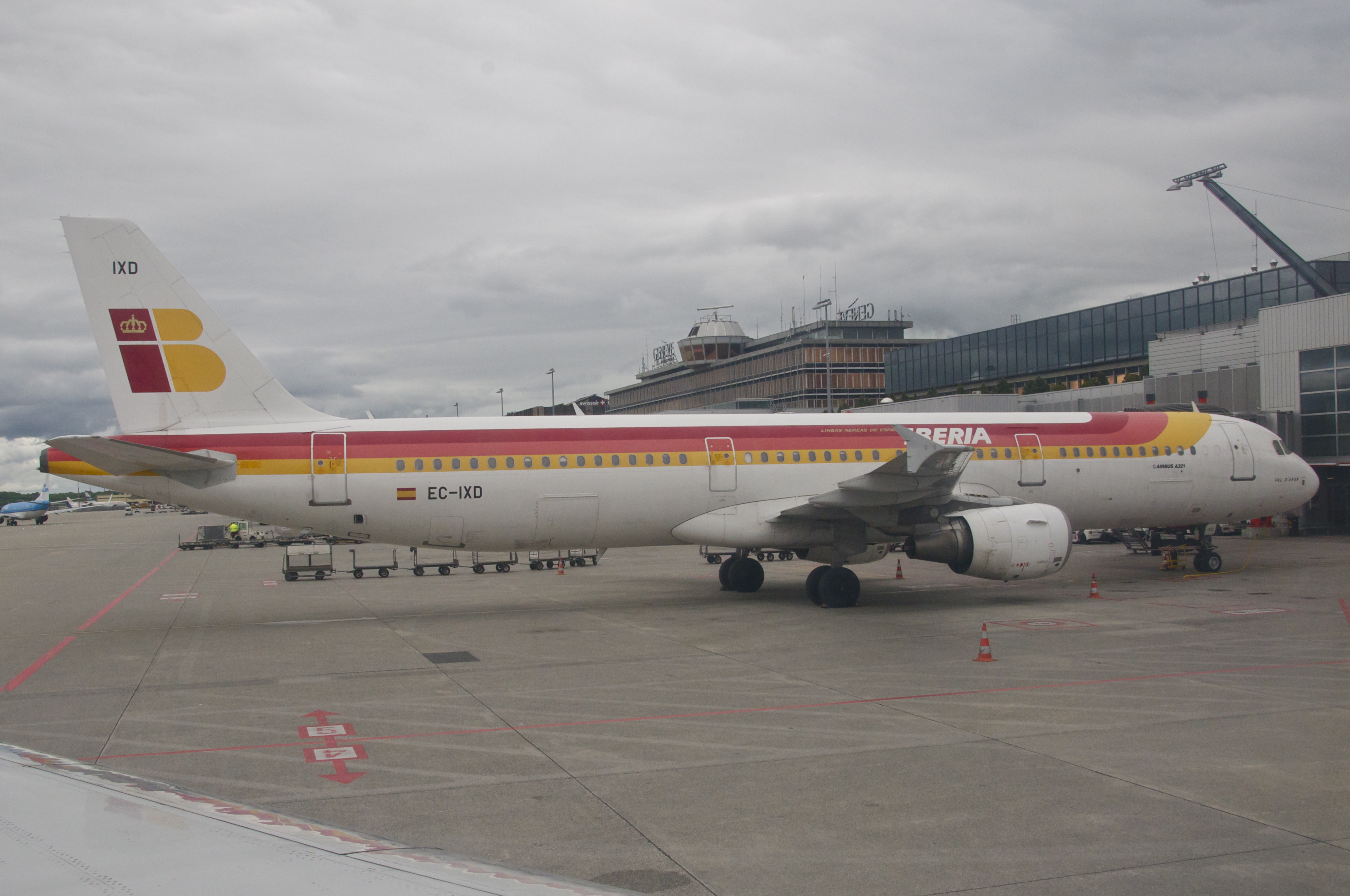 IBERIA Airbus A321-211; EC-IXD@GVA;10.05.2013/706as